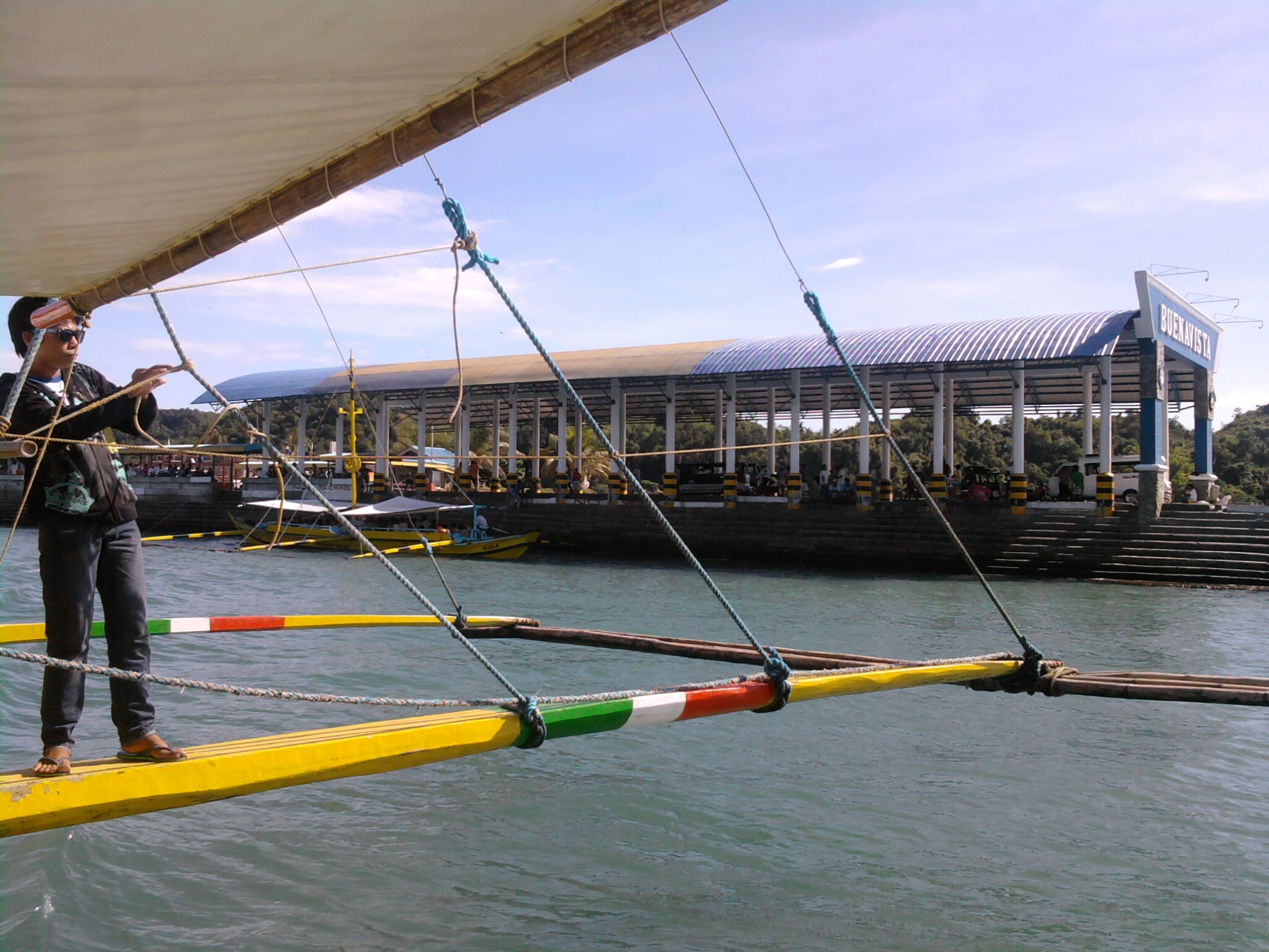 Buenavista ,Guimaras ferry terminal from pump boat